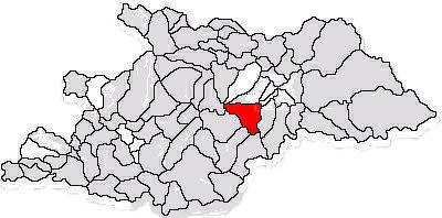 Limits of Botiza commune in Maramureş County